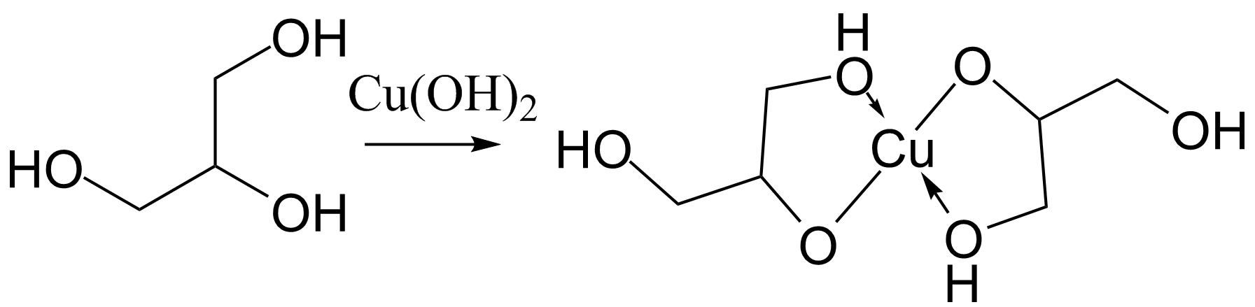 Reaction of Glycerol with Cu(OH)2